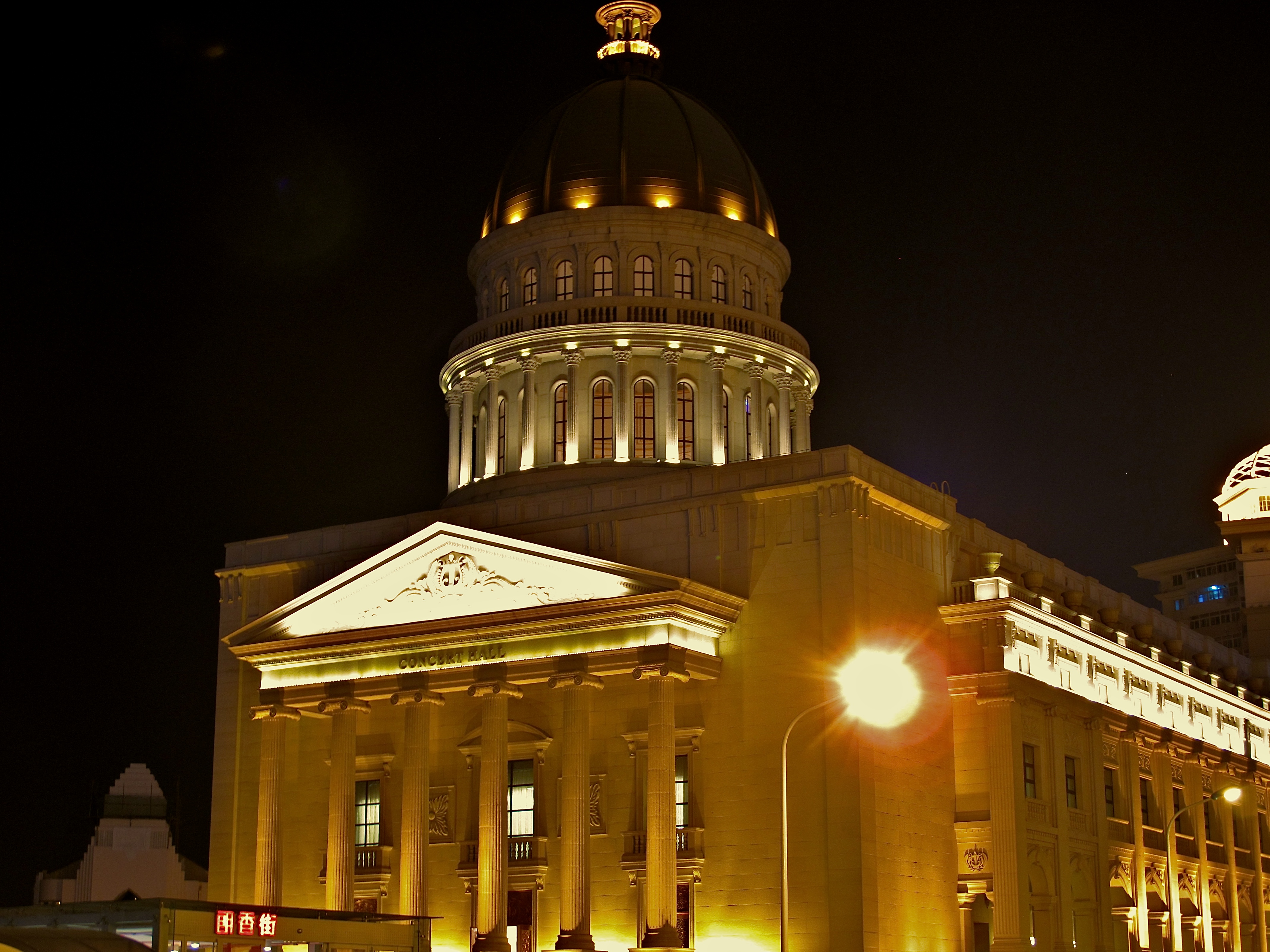 City Concert Hall Tianjin China 天津音乐厅